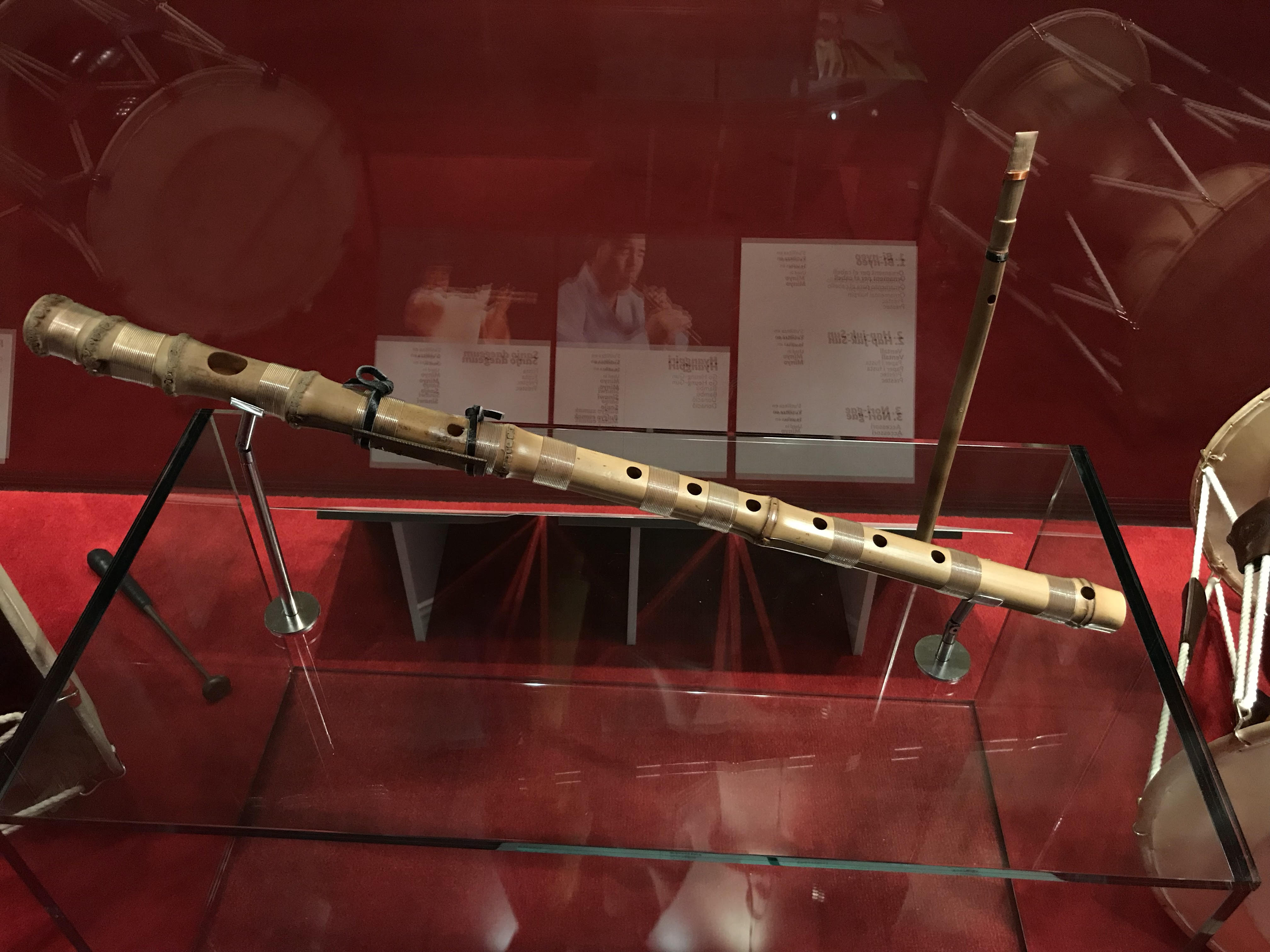 Daegum for Sanjo at Museu de la Musica de Barcelona